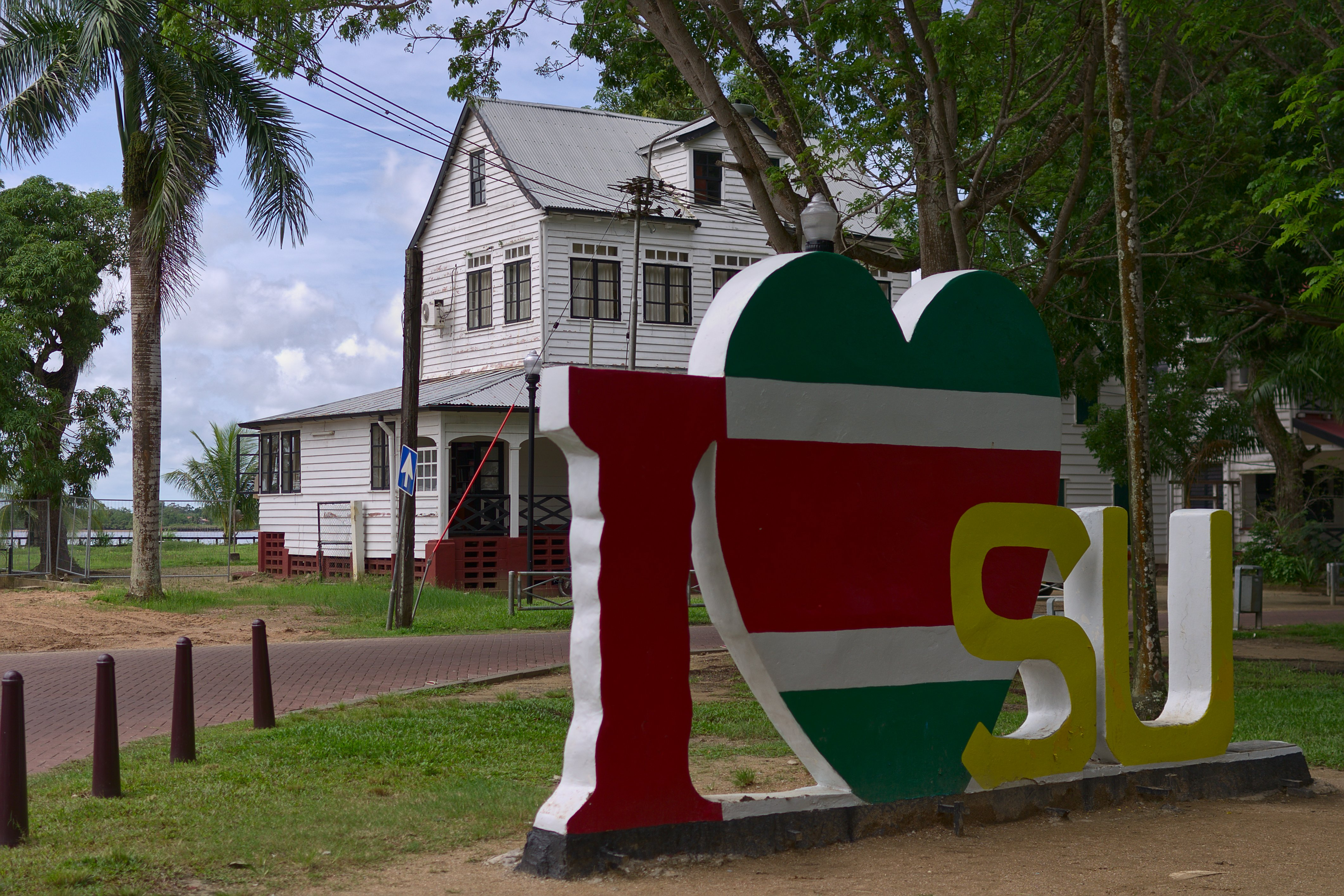 I heart SU